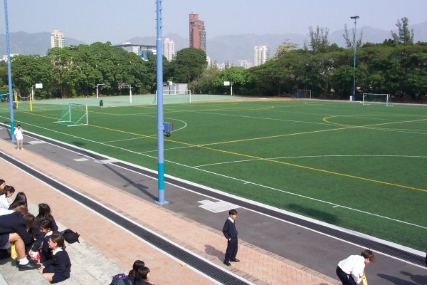 King George V School - Field